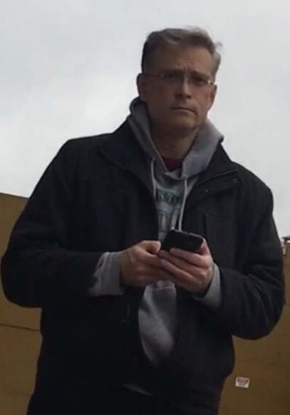 Photo of White Nationalist Greg Johnson.